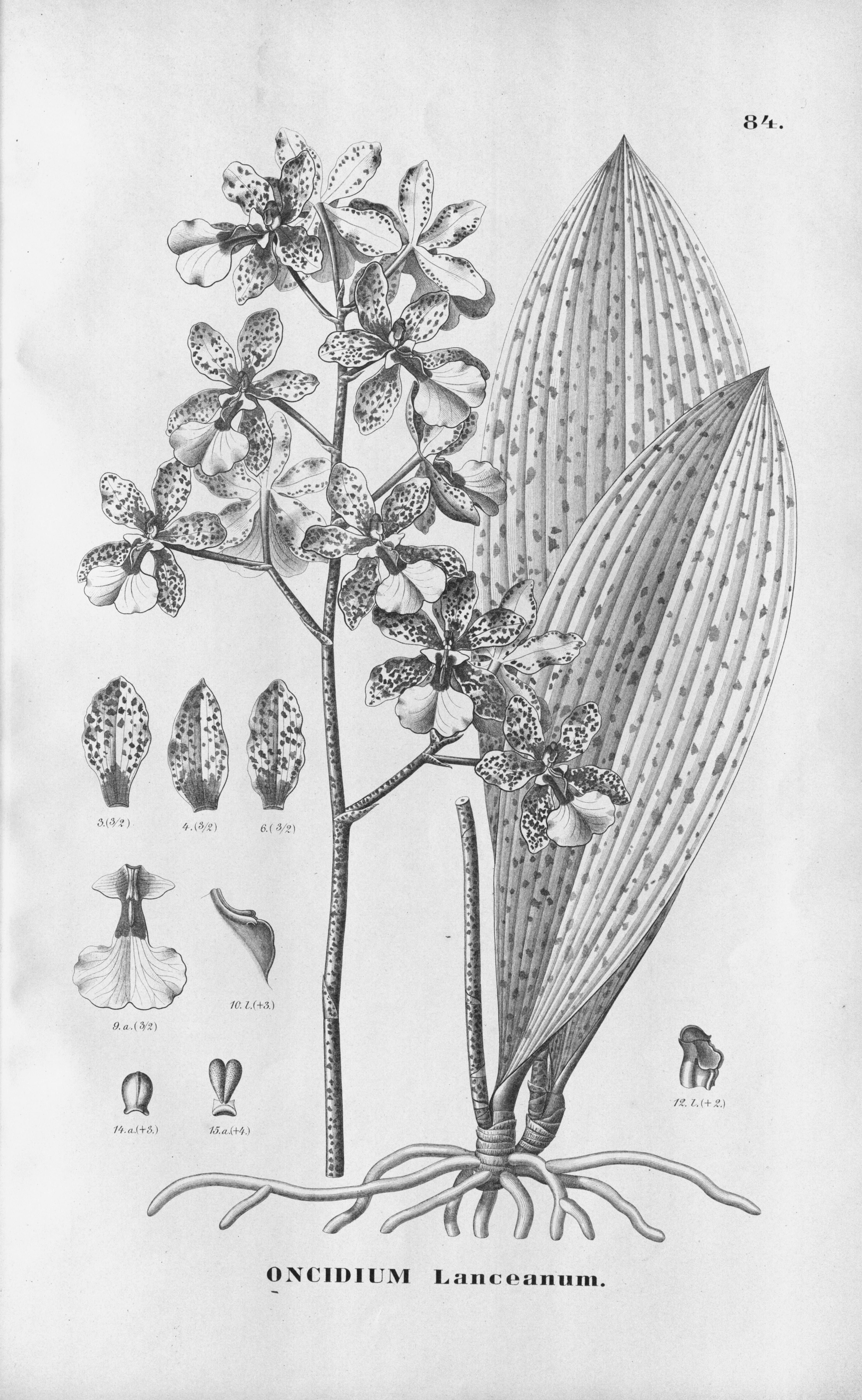 Illustration of Trichocentrum lanceanum (as Oncidium lanceanum)